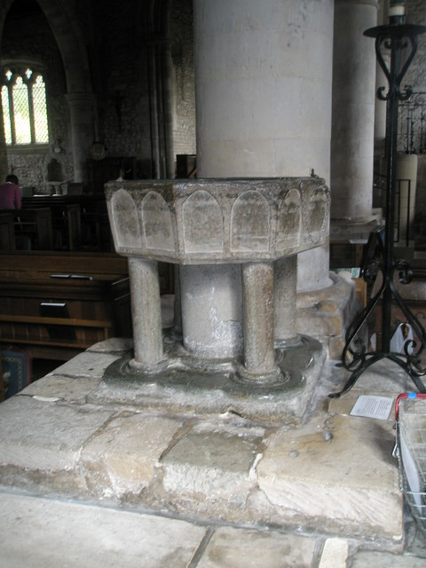 The font at Bosham parish church